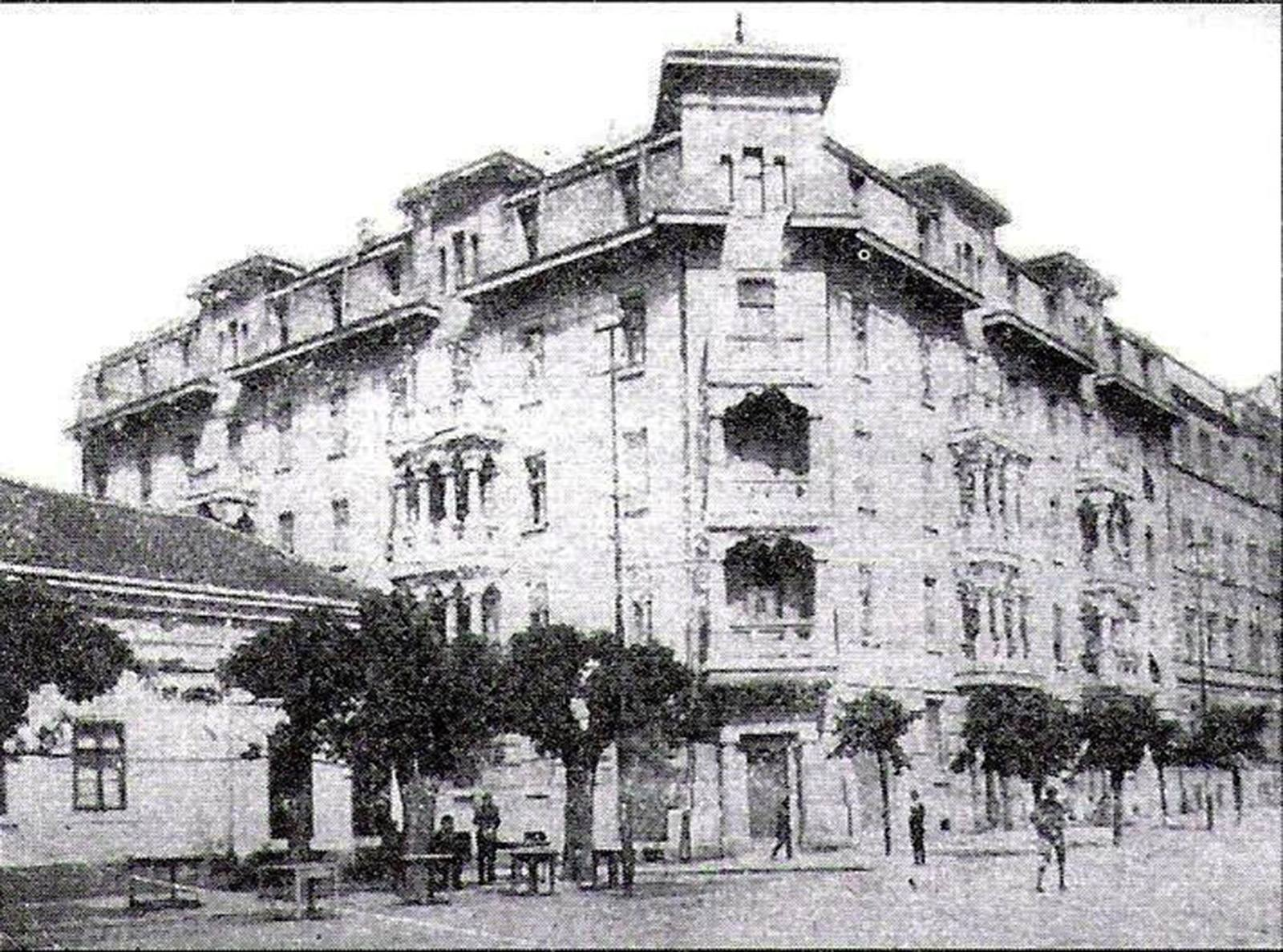 Street in Belgrade